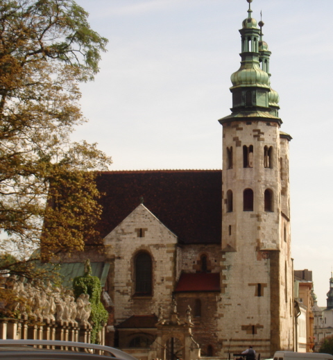 St. Andrews Church in Krakow, Poland.